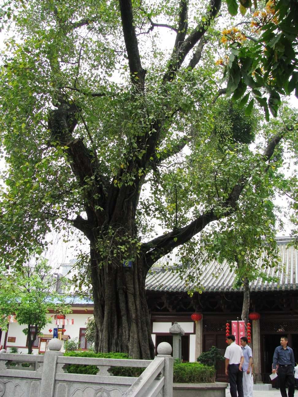 A Sacred fig in Guangxiao Si Guangzhou, China.中国广州光孝寺内的菩提树。